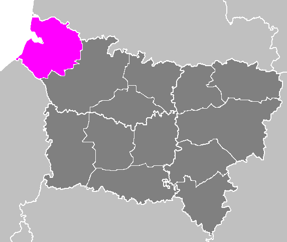 Maps of arrondissements and cantons of France: Arrondissement d Abbeville.PNG